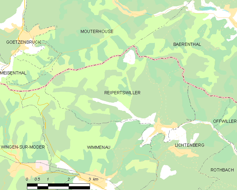 Map of French municipality